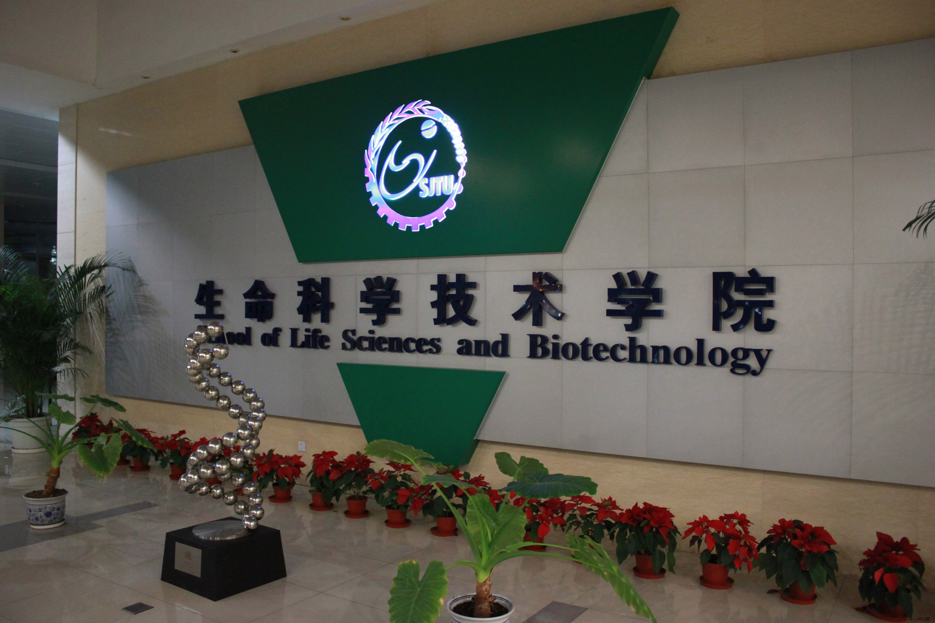 Shanghai Jiao Tong University School of Life Sciences and Biotechnology Hall